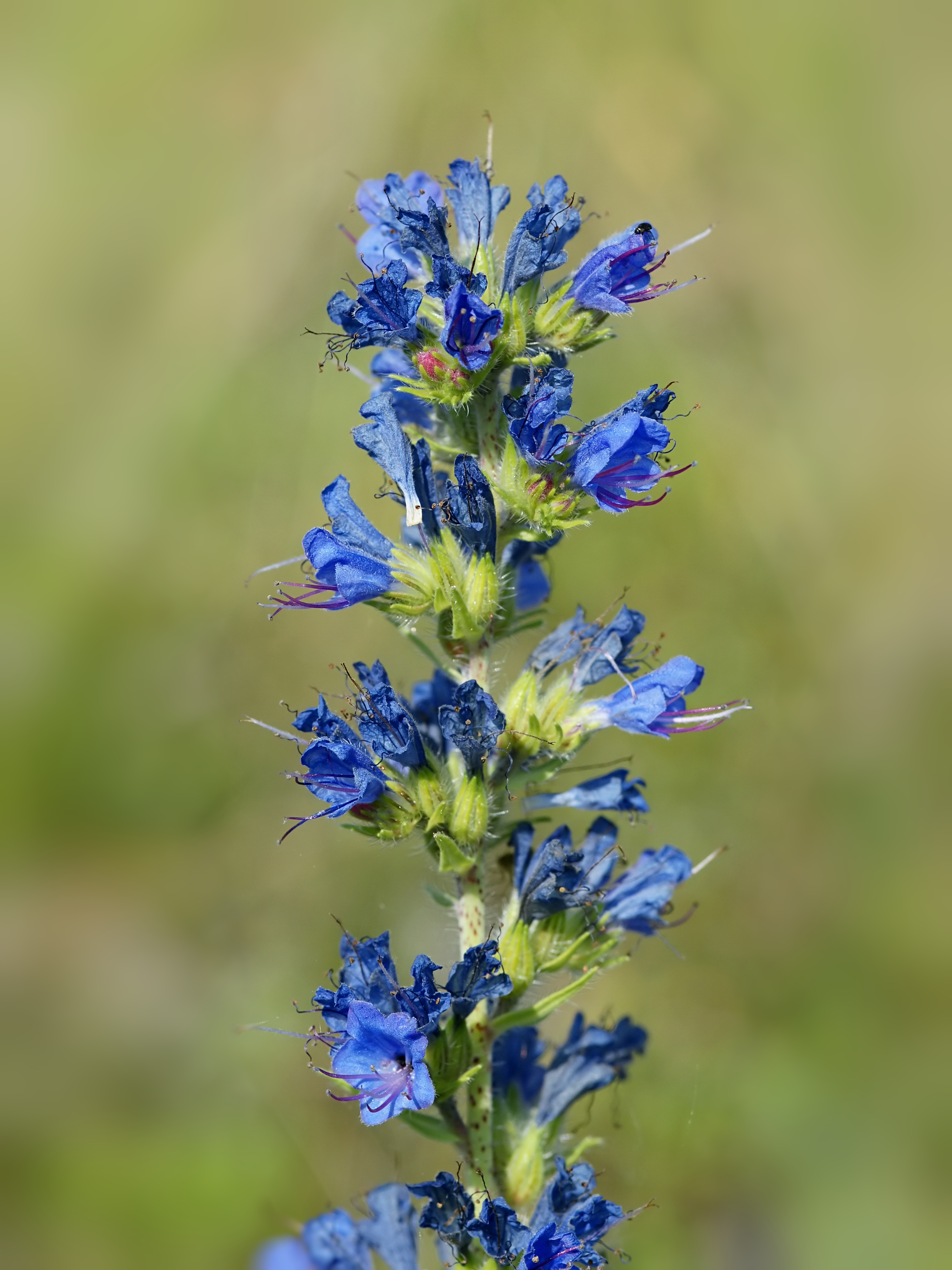 Viper's Bugloss at Nismes, Belgium.